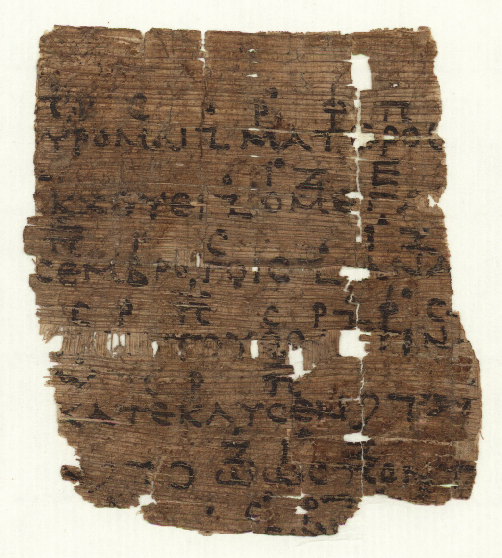 This Greek text on papyrus, written around 200 BC in Hermopolis, Egypt, has seven lines of writing containing parts of verses 338–344 from the first chorus of Orestes. Composed in 408 BC by the Greek tragedian Euripides (circa 480 BC–406 BC), the play recounts the story of Orestes, who kills his mother Clytaemnestra to avenge the death of his father, Agamemnon, and is pursued by the Furies for this deed. In addition to a passage of a chorus song (stasimon), the fragment contains vocal and instrumental symbols written above the lines of the lyrics. It is one of a relatively small number of surviving Greek texts with musical notation. Although much remains unknown about the music of the ancient Greeks, scholars have tried to reconstruct from such notation how the chorus might have been sung and played. The papyrus, which was recovered from mummy cartonnage at the end of the 19th century, belongs to the Papyrus Collection of the Austrian National Library, which was assembled in the 19th century by Archduke Rainer. In 1899 he gave it to Emperor Franz Joseph I, who made the collection part of the Hofbibliothek (Imperial Library) in Vienna. One of the largest such collections in the world, the Papyrus Collection (Collection Erzherzog Rainier) was inscribed on the UNESCO Memory of the World register in 2001. Drama; Greek drama (Tragedy); Instrumental music; Memory of the World; Music, Greek and Roman; Musical notation; Musical scores; Mythology, Greek; Orestes (Greek mythology); Vocal music